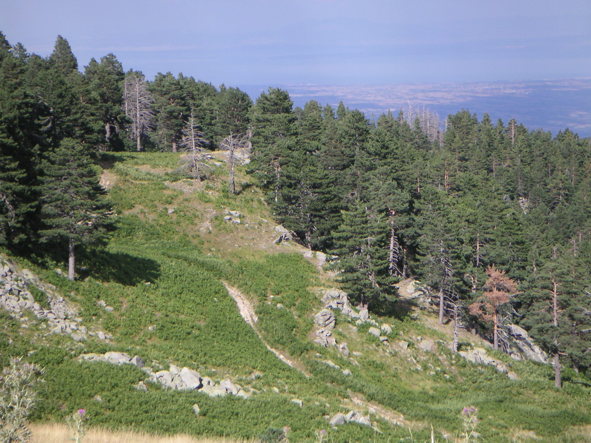 Pierian Mountains in Sarakatsana area